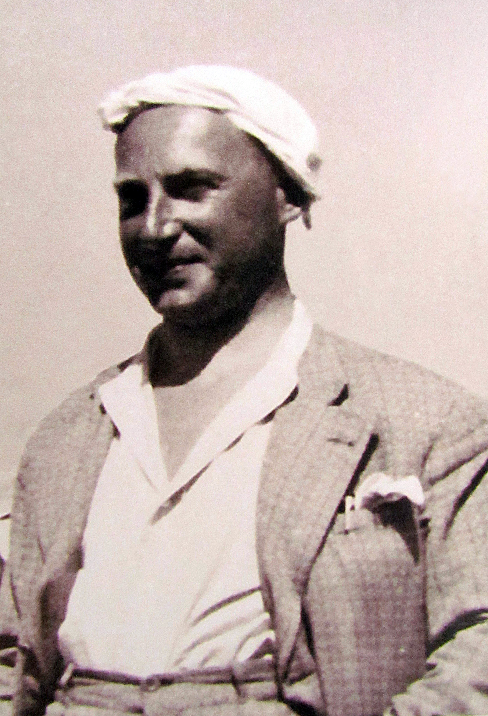 Djordje Mano Zisi Serbian Archaeologist